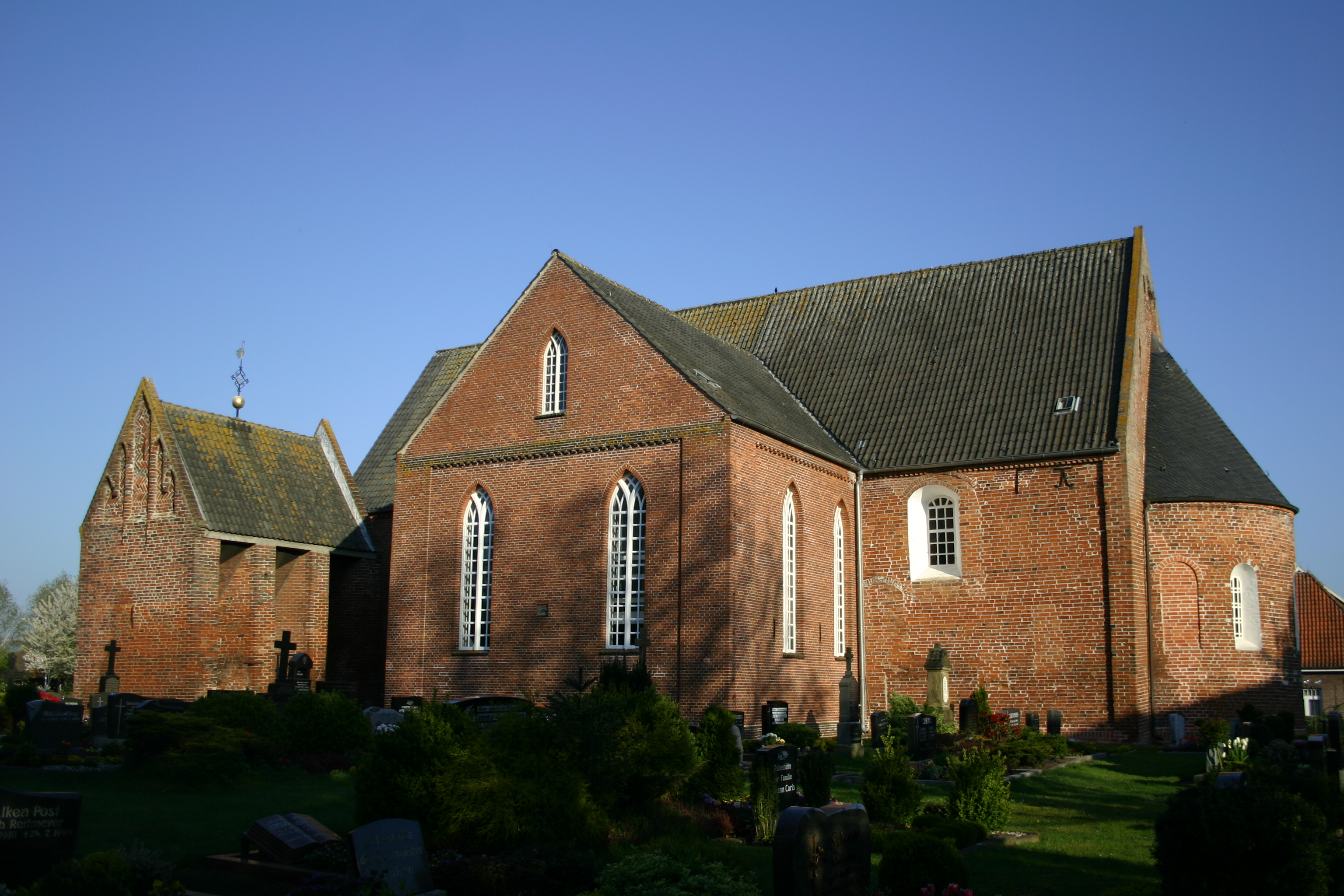 Historic church in Strackholt, district of Aurich, East Frisia, Germany